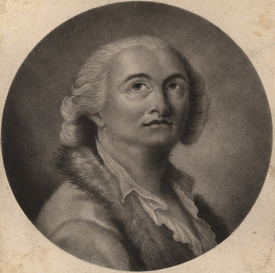 Count Alessandro di Cagliostro (1743-1795), traveller, occultist and Freemason. Scientific Identity: Portraits from the Dibner Library of the History of Science and Technology , 2003